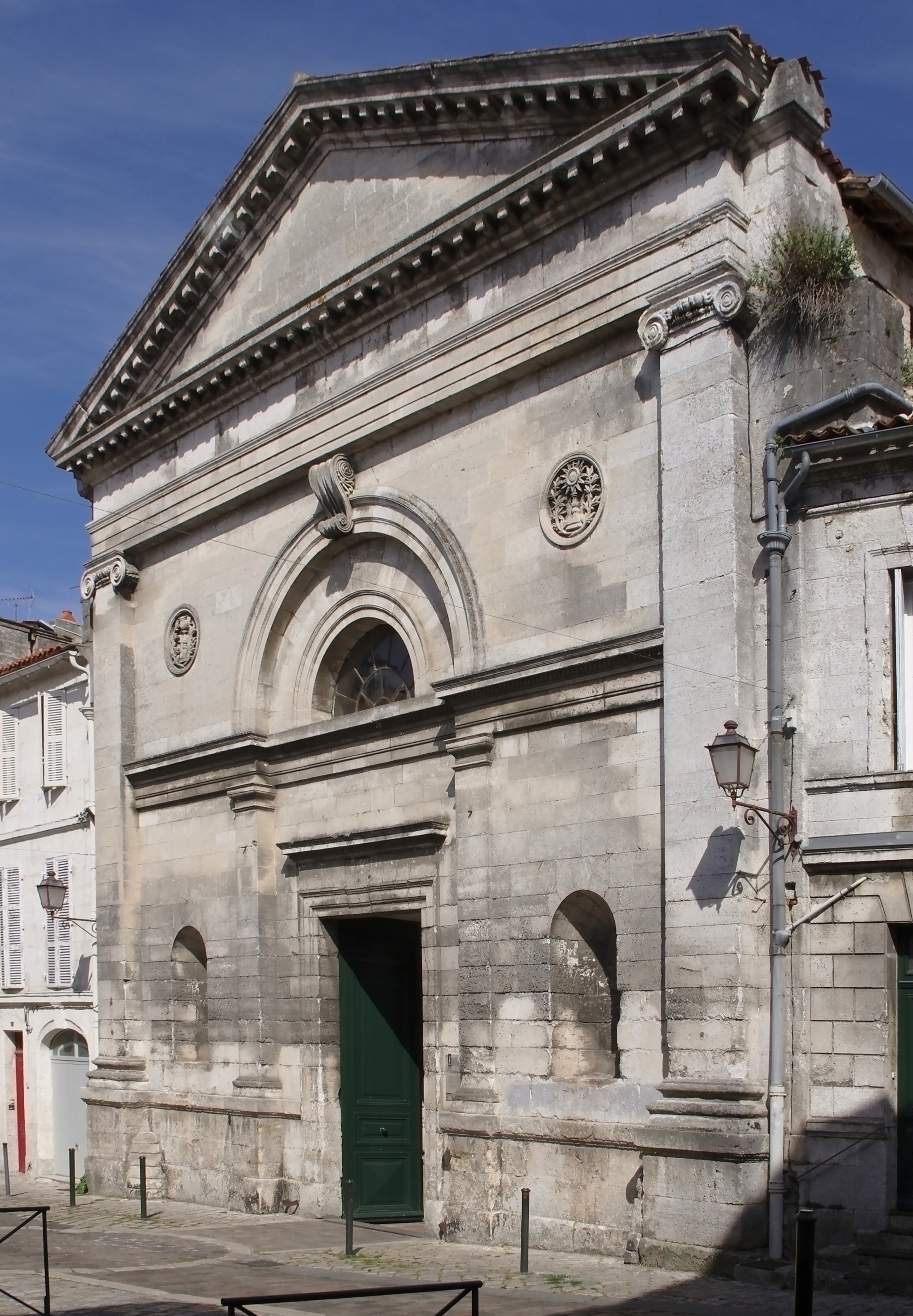 Façade of Saint-André church (XIth, XVth et XVIIth centuries), Angoulême, Charente, France.